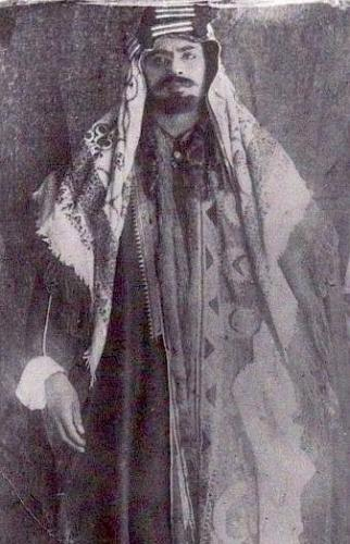 Abdull-aziz muteb Al Rasheed prince of shammer tribe